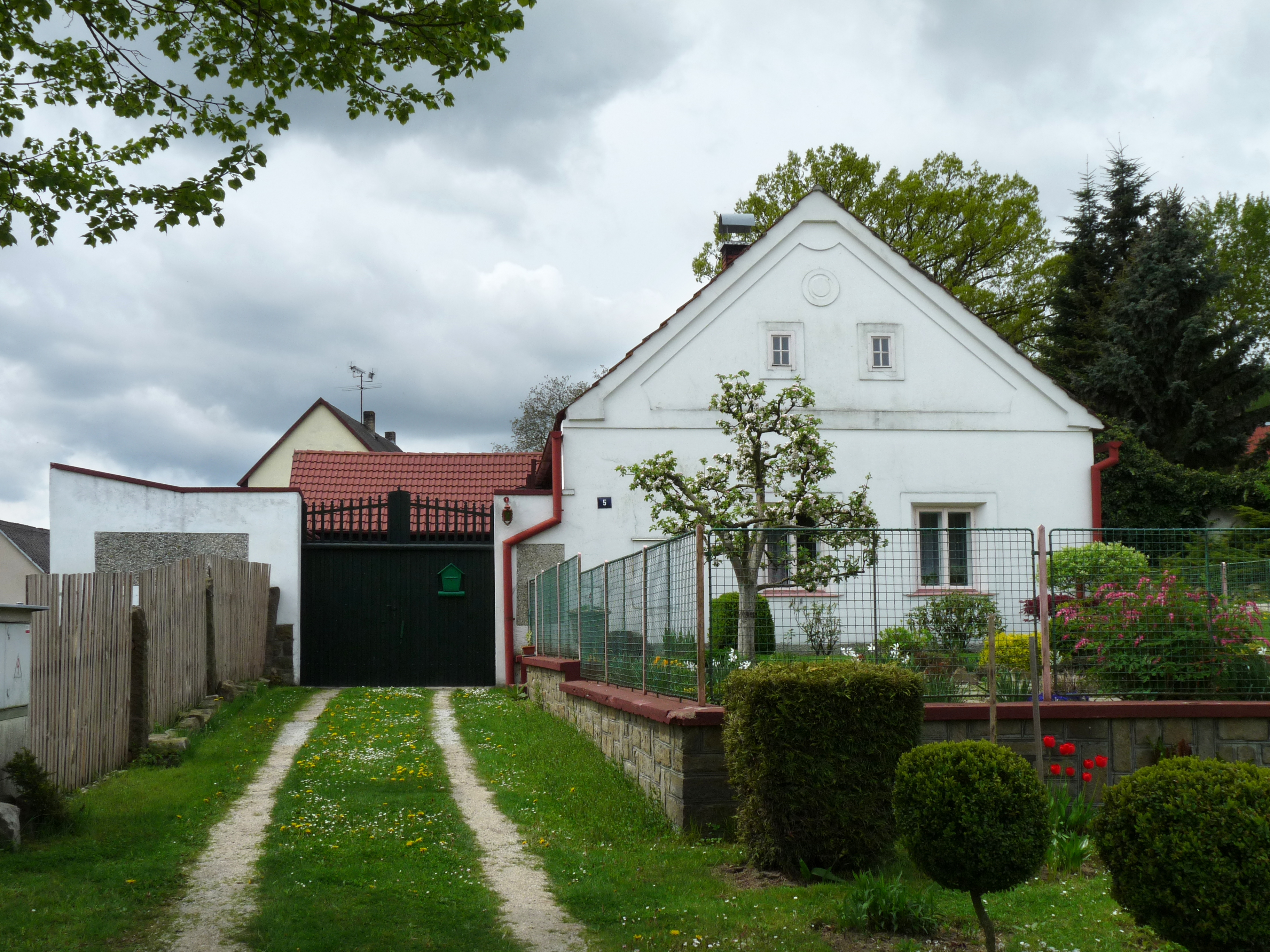 House No 5 in the village of Horní Němčice, Jindřichův Hradec District, South Bohemian Region, Czech Republic.